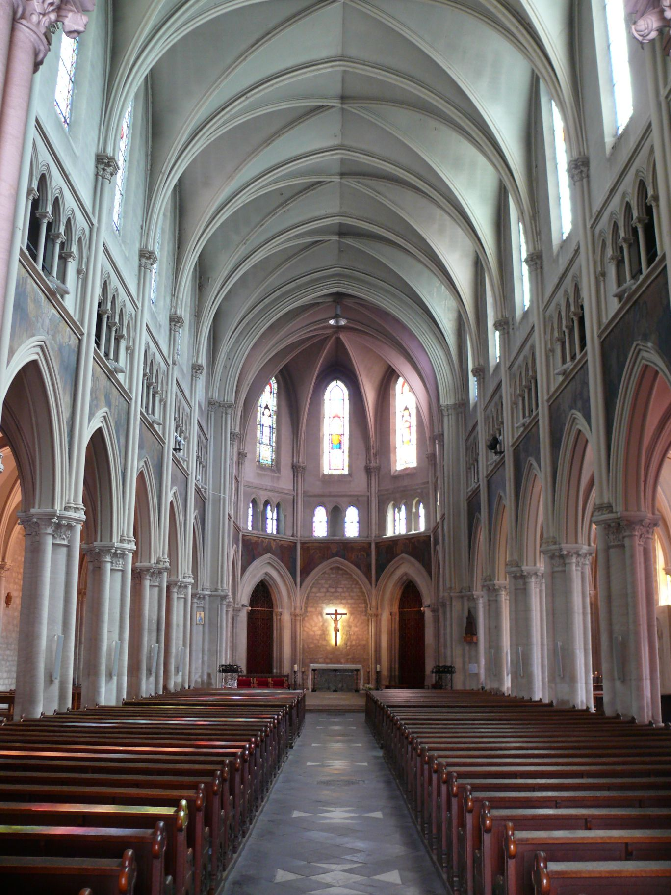 Inside Saint-Joseph-Artisan's church in Paris (Paris X, France)